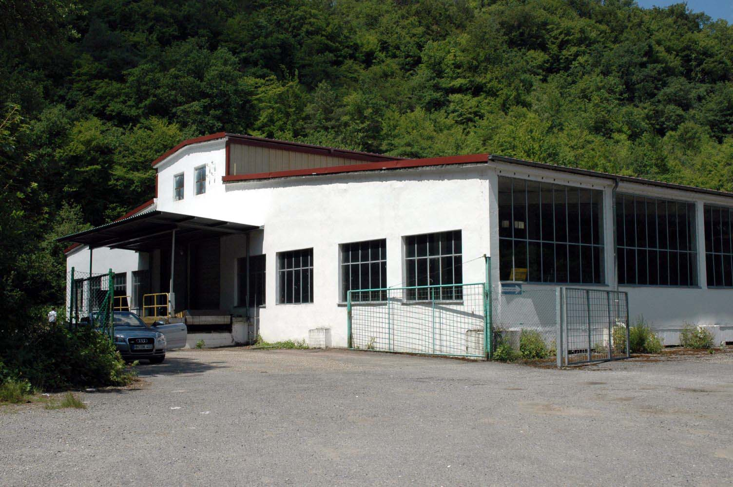 former warehouse for the underground armament factory "Goldfisch" near Obrigheim.